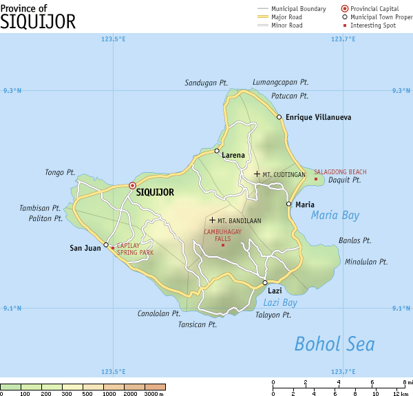 Map of Siquijor, Philippines. It is a topographic map showing the six municipalities, major and some minor roads, and notable places of interest. Created and copyright (2003) by seav. Released under the GNU FDL.